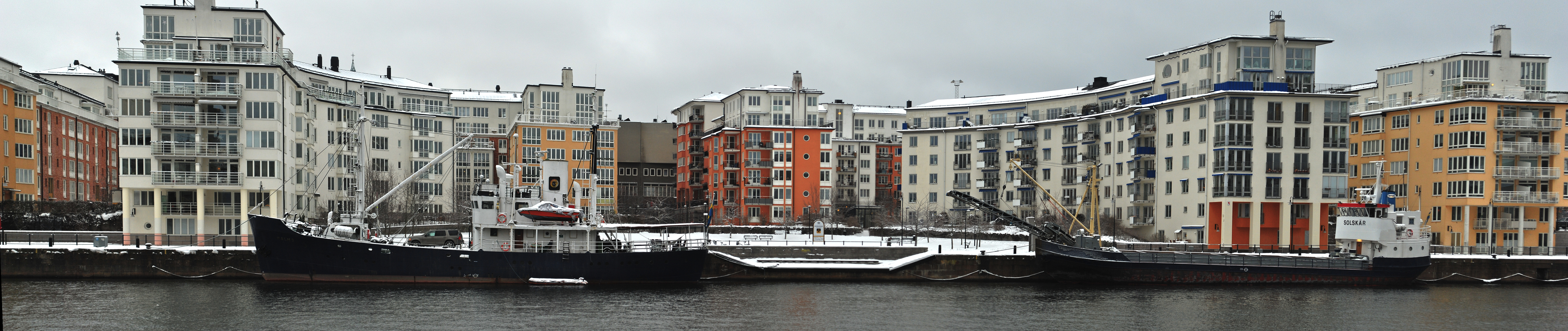 Norra Hammarbyhamnen and Mandelparken seen from Henriksdalshamnen.